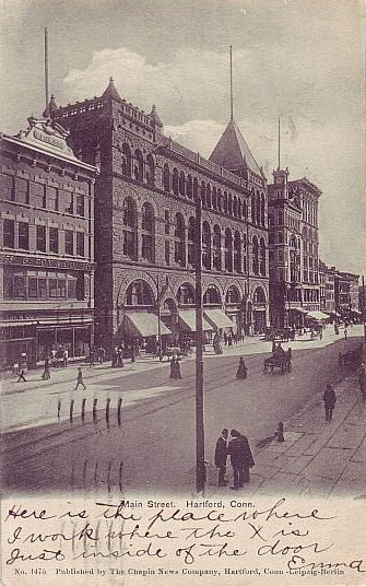 Postcard: Main Street, with view of G. Fox & Co. building, downtown Hartford.